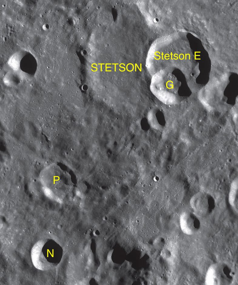 Part of the chart LAC-122 used for the presentation